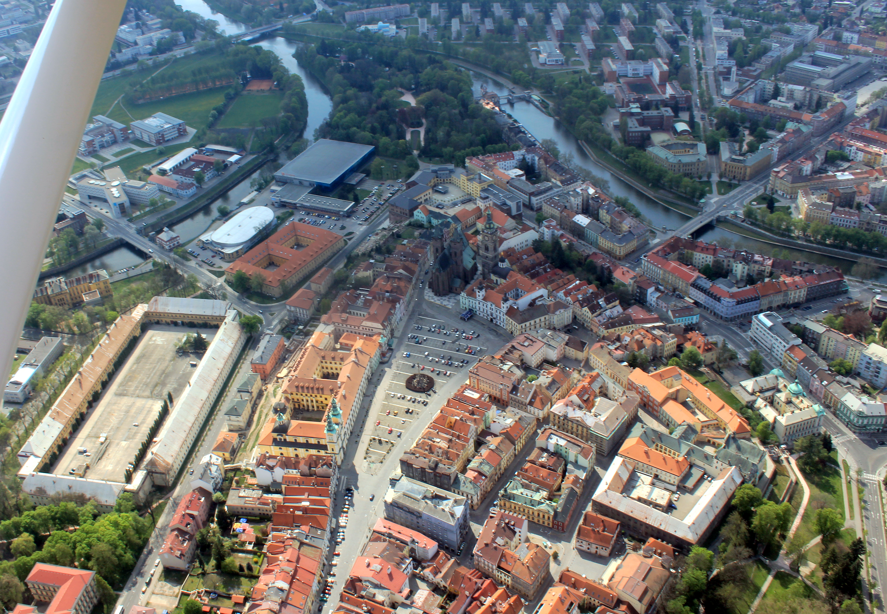 Centre of town Hradec Králové from air, eastern Bohemia, Czech Republic